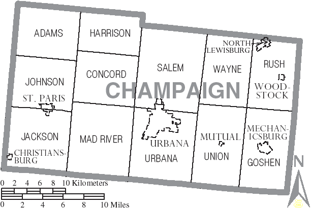 Map of Champaign County, Ohio, United States with township and municipal boundaries